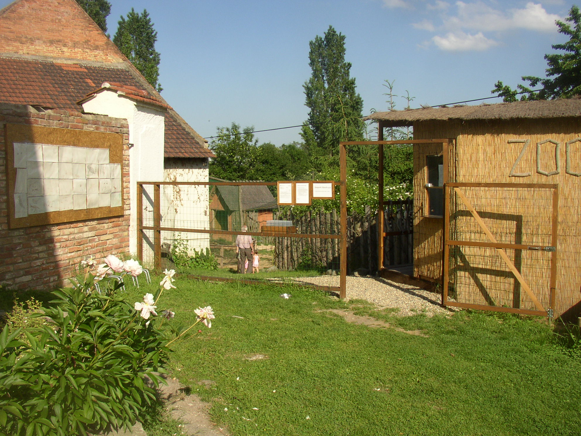 Entrance to small zoopark in Zájezd, Kladno District, Czech Republic.